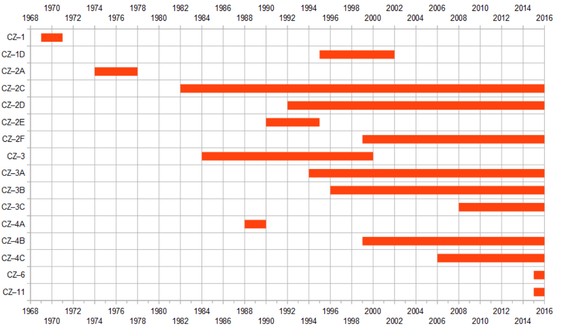 Timeline of usage Long March rocket.